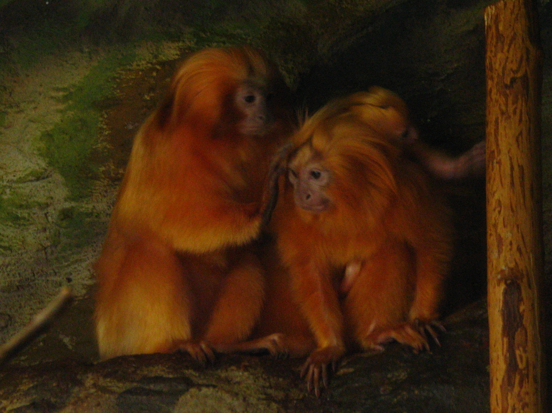 Golden Lion Tamarin ZOO Dvůr Králové, Czech Republic